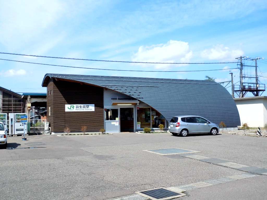 JR East Hanyuda Station